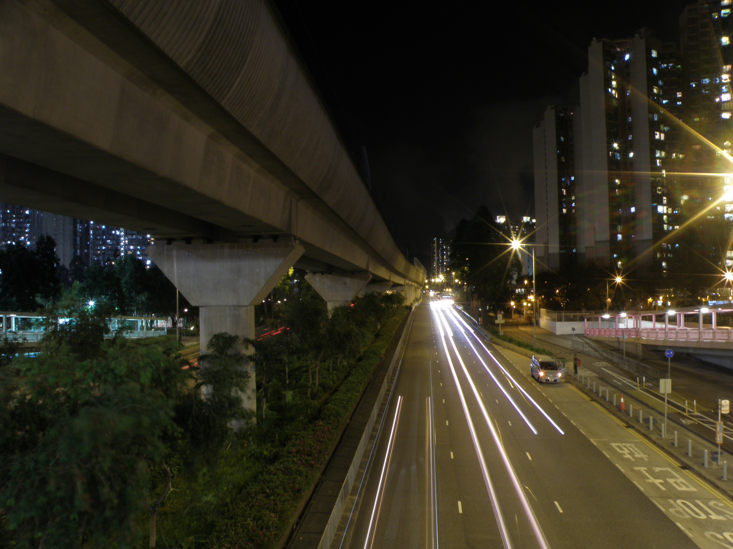 Sai Sha Road in Ma On Shan, Hong Kong.